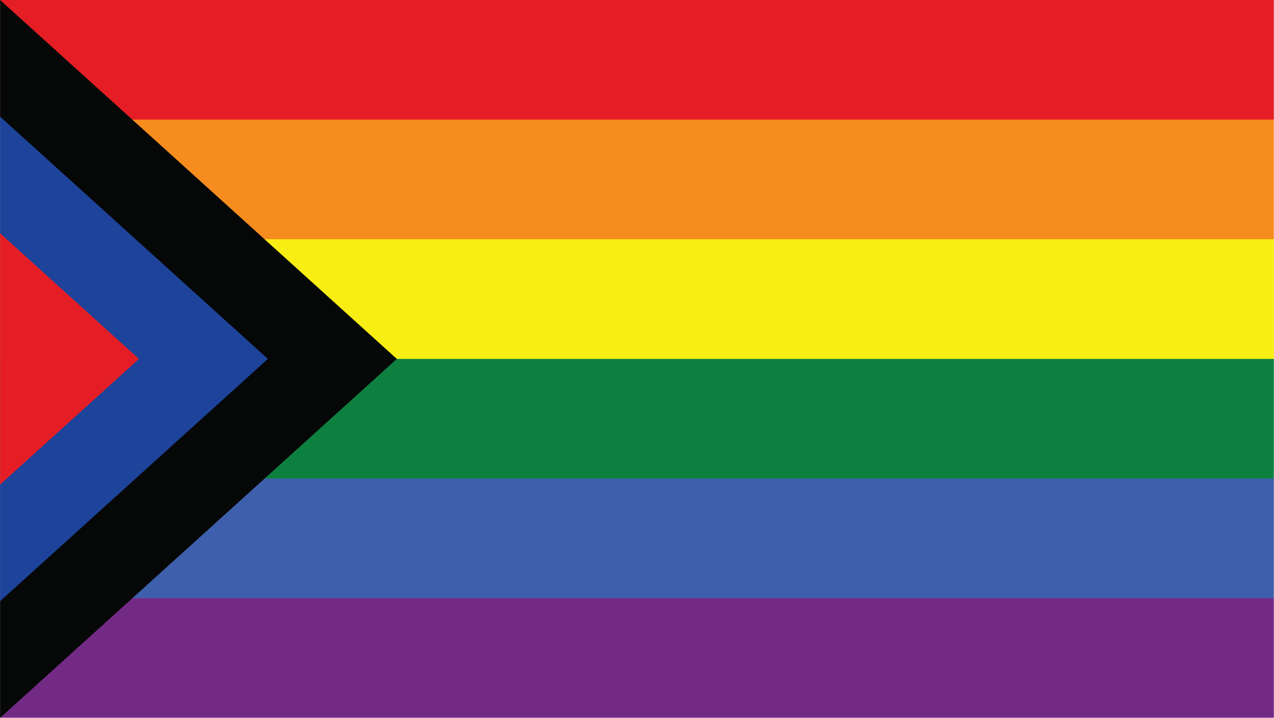 A six stripe flag with stripes (from top to bottom) in red, orange, yellow, green, indigo and violet along with Red, Blue and Black stripes pointing towards the right side of the flag from the left.